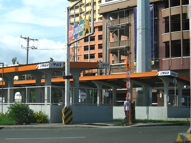 Buendia station of the Philippine National Railways